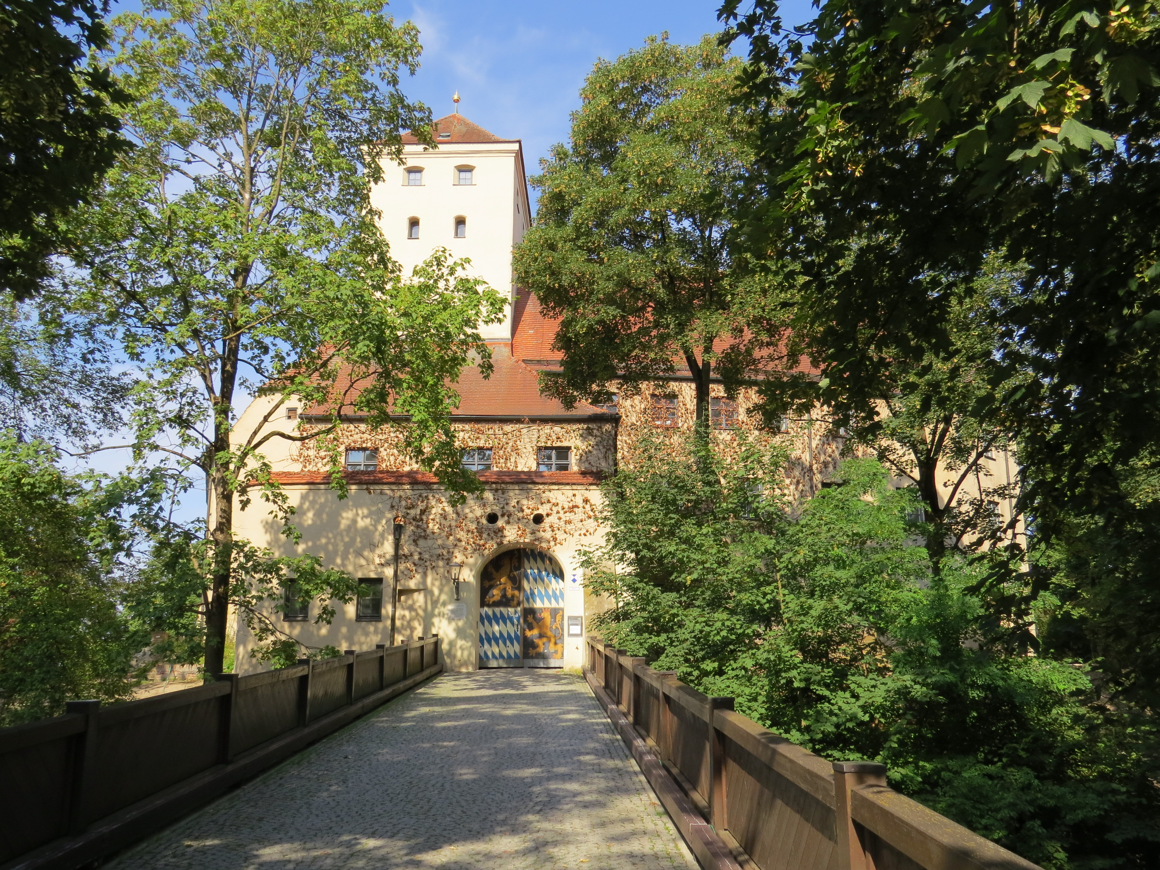 Schloss Friedberg